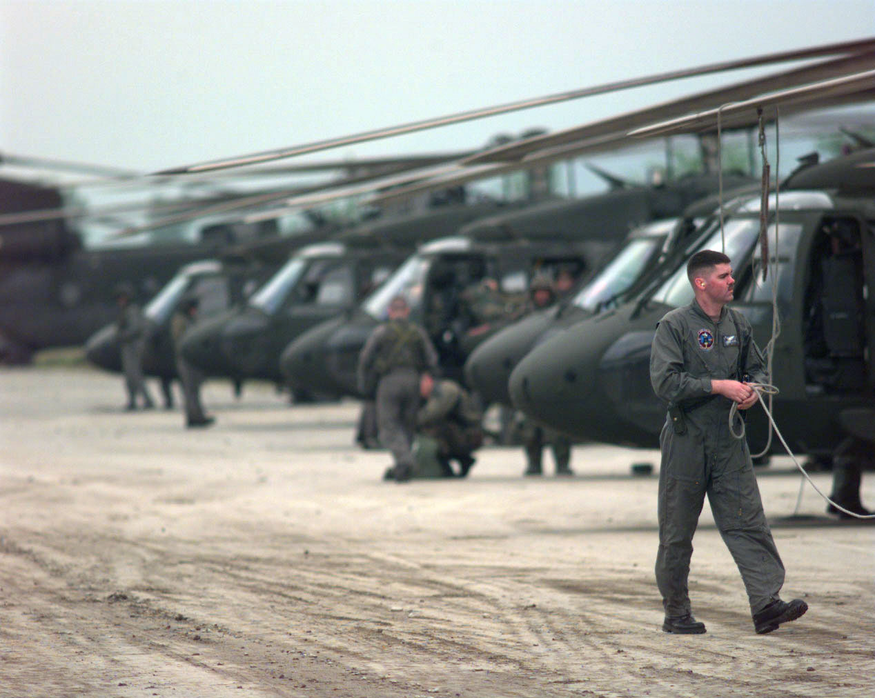 UH-60 Black Hawk support helicopters arrive at Rinas Airport, Tirana, Albania, in support of NATO Operation Allied Force. Defense Secretary Donald H. Rumsfeld uses the 1999 operation as a prime example why standing joint task force headquarters are needed in the future. When the 60-day air war over Yugoslavia ended, the ad hoc headquarters formed to coordinate it had filled only 80 percent of its necessary slots.